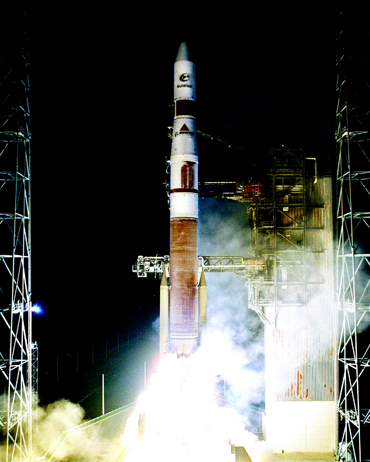 Delta IV Medium+(4,2) rocket launches an Eutelsat telecommunication satellite (Cape Canaveral, Florida, November 20, 2002).